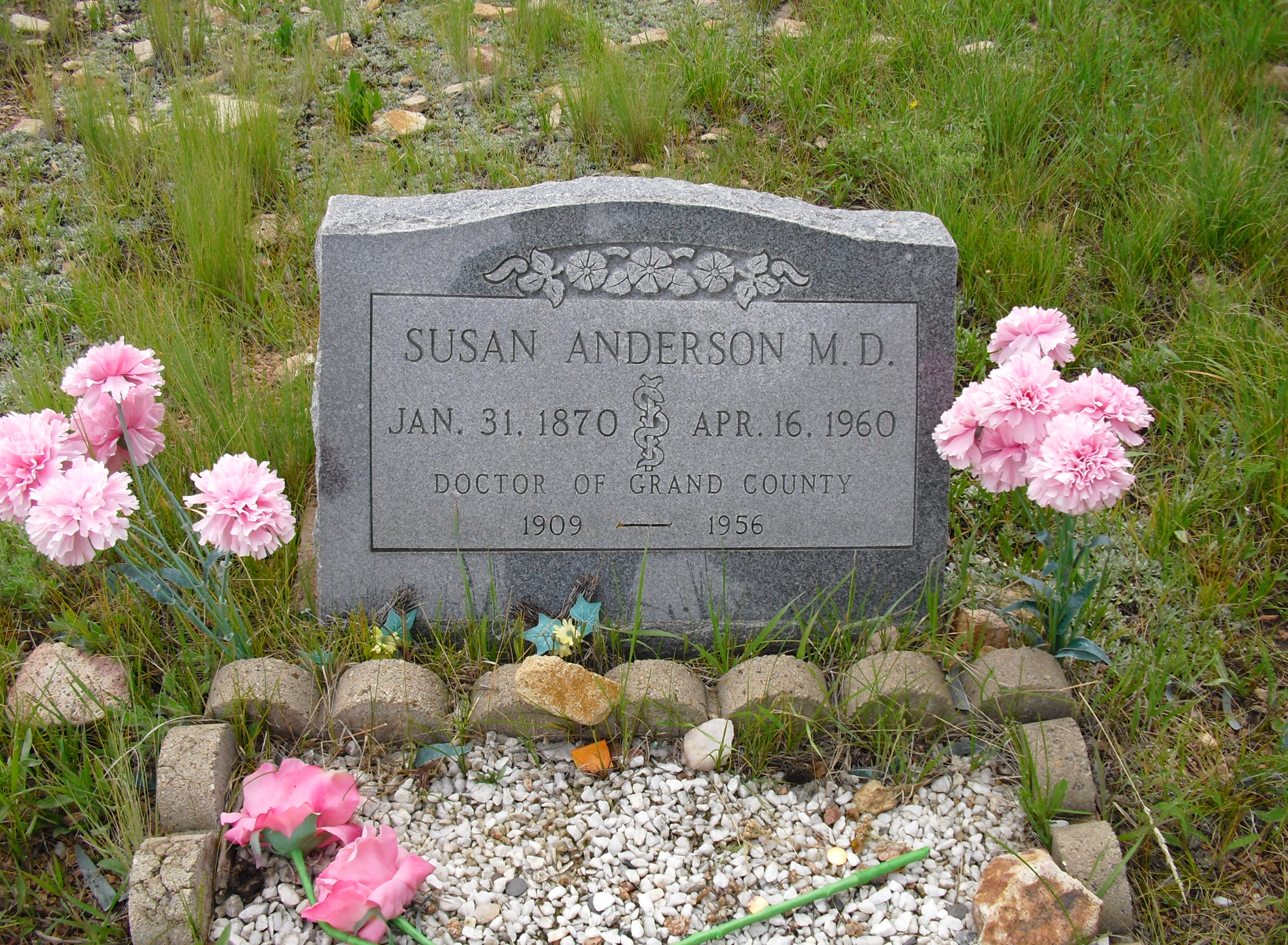 Grave of American physician Susan Anderson in Mount Pisgah Cemetery, Cripple Creek, Colorado